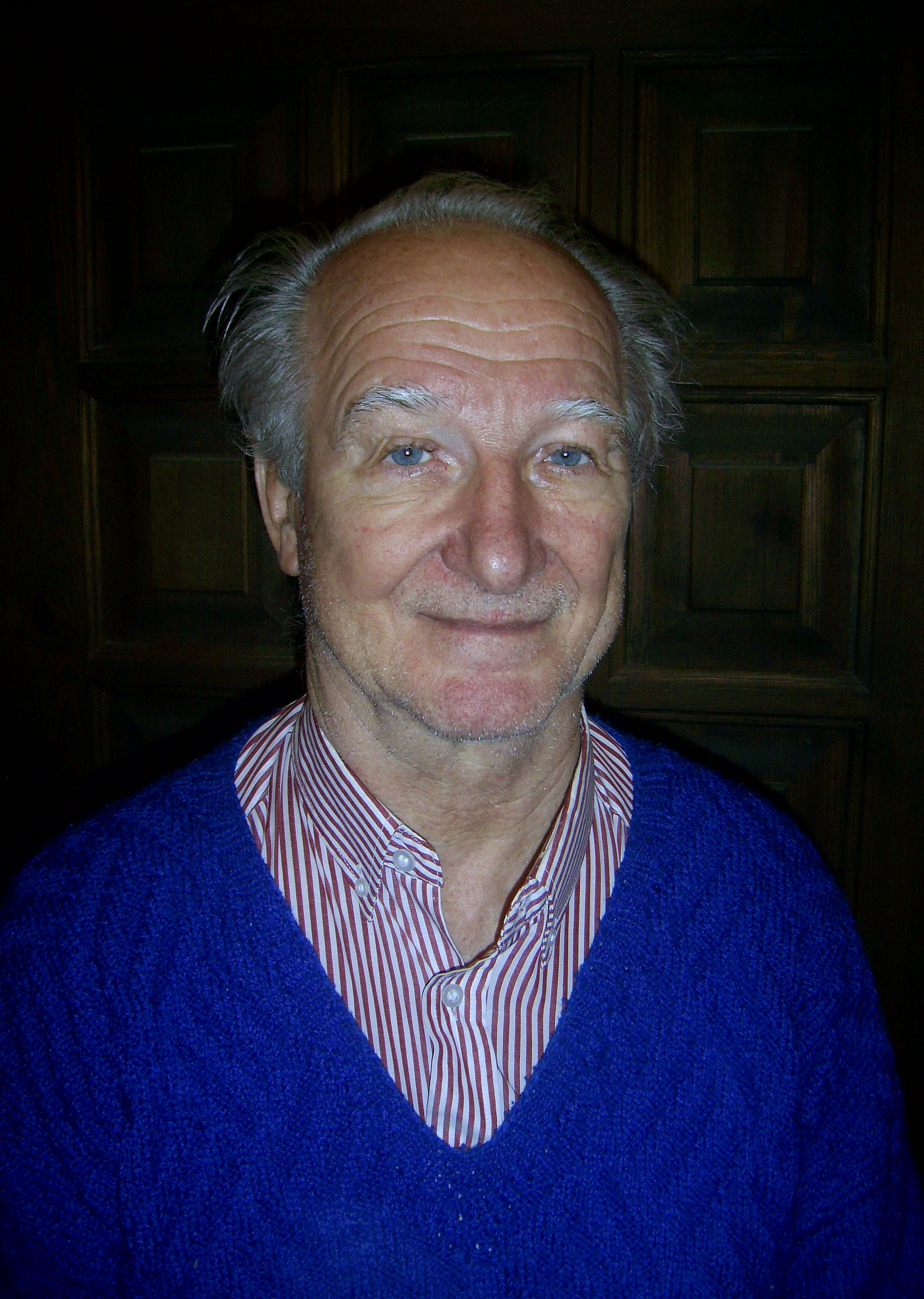 Antonín Drábek, czech writer and publisher, January 2011